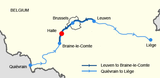 Train line map from terminus to terminus for both lines involved in the Halle Train Crash (2010). Town/Station markers accurate, train line simplified yet accurate. (Made in Photoshop CS4).